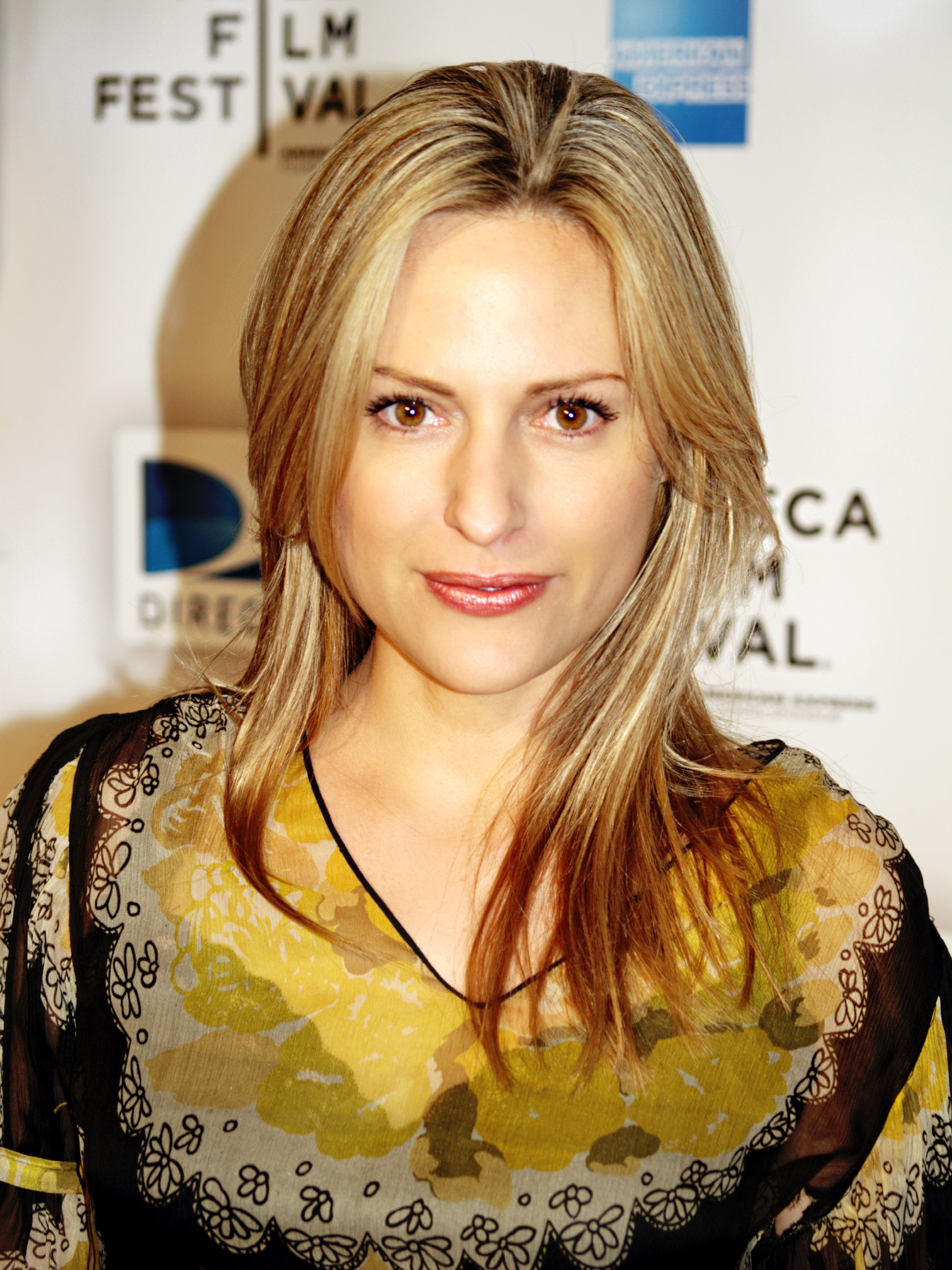 Aimee Mullins at the 2009 Tribeca Film Festival premiere of Woody Allen's film Whatever Works.